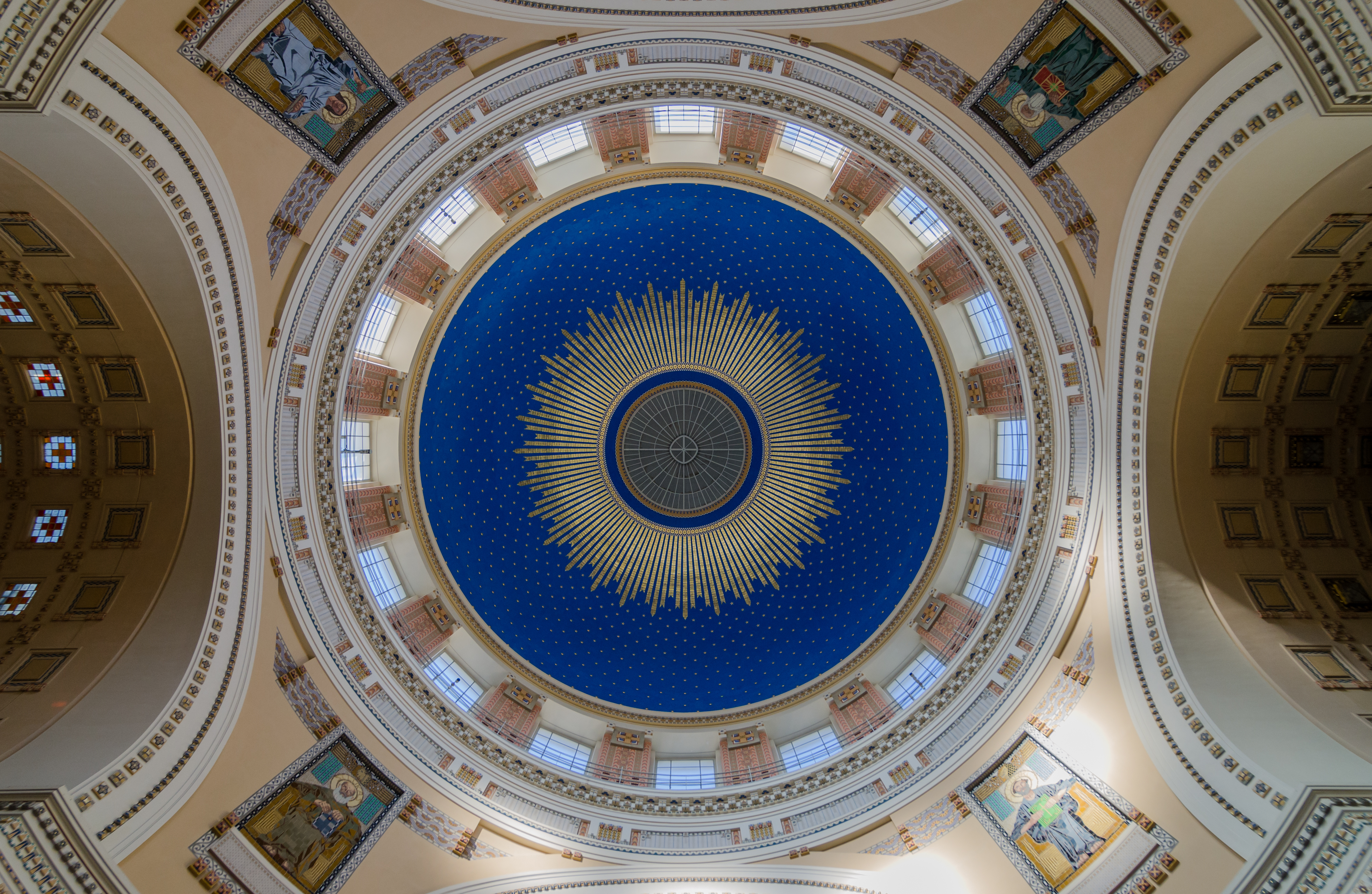 Vienna (Austria) – Central Cemetery – Graveyard Church of Saint Charles Borromeo – interior – cupola